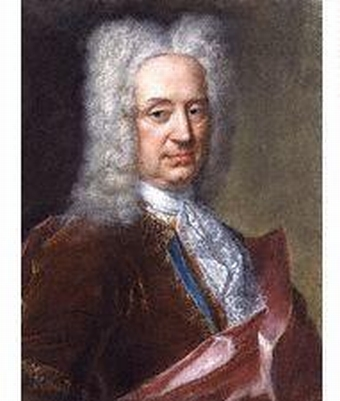 Charles_Whitworth,_Baron_Whitworth_(1675-1725),. british diplomat